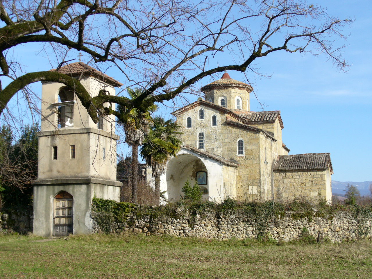 church in the village of Lykhny, Abkhazia